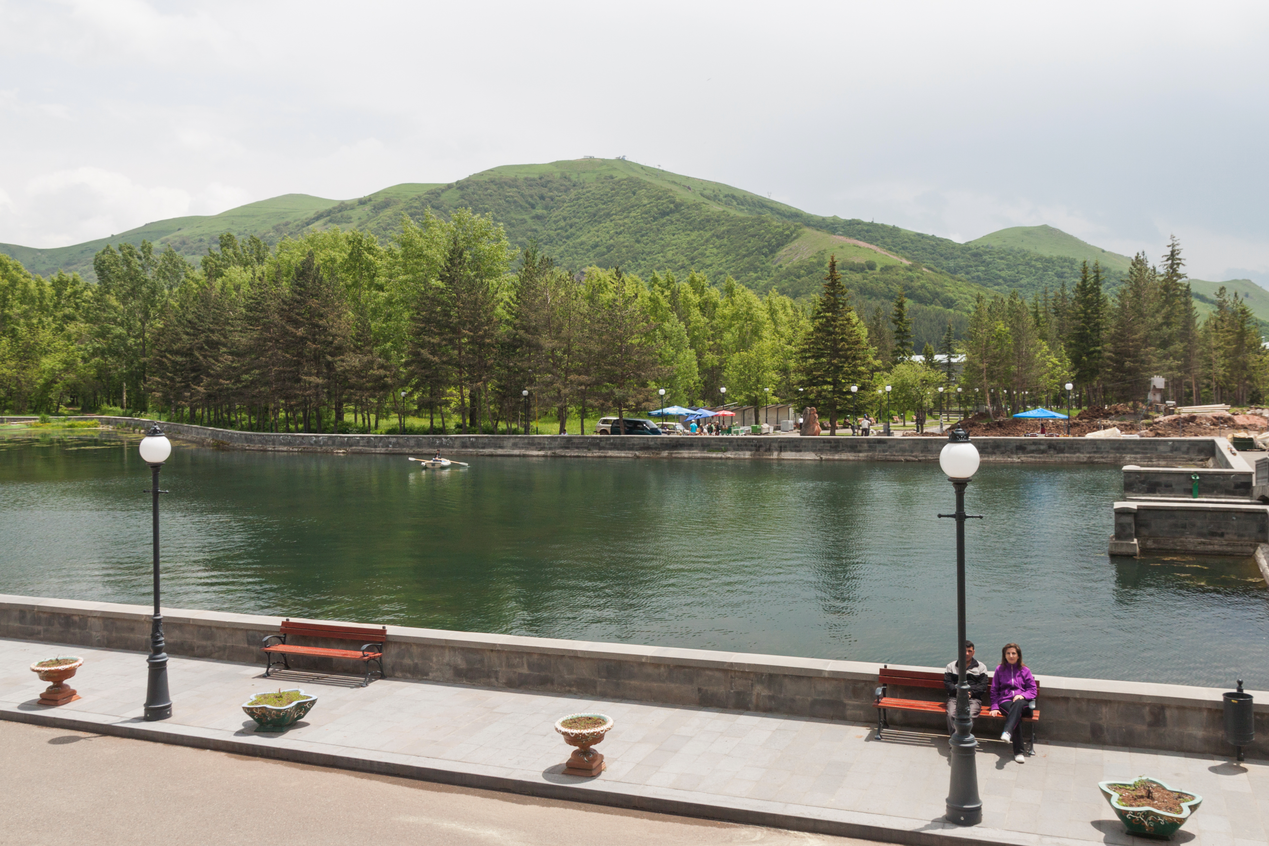 View of the lake in the city center. Jermuk, Vayots Dzor Province, Armenia.